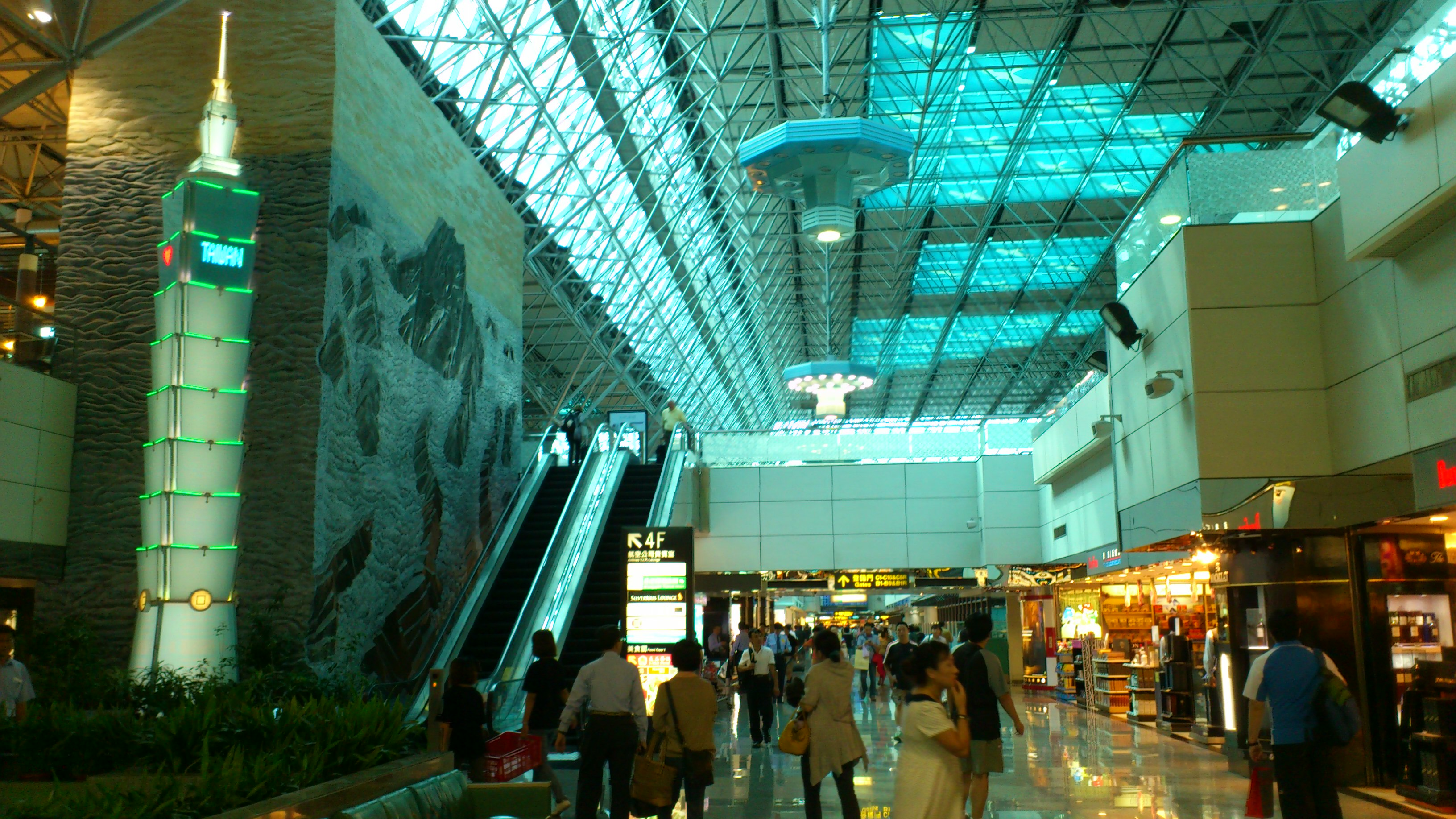 Taiwan Taoyuan Airport T2 Departure Area